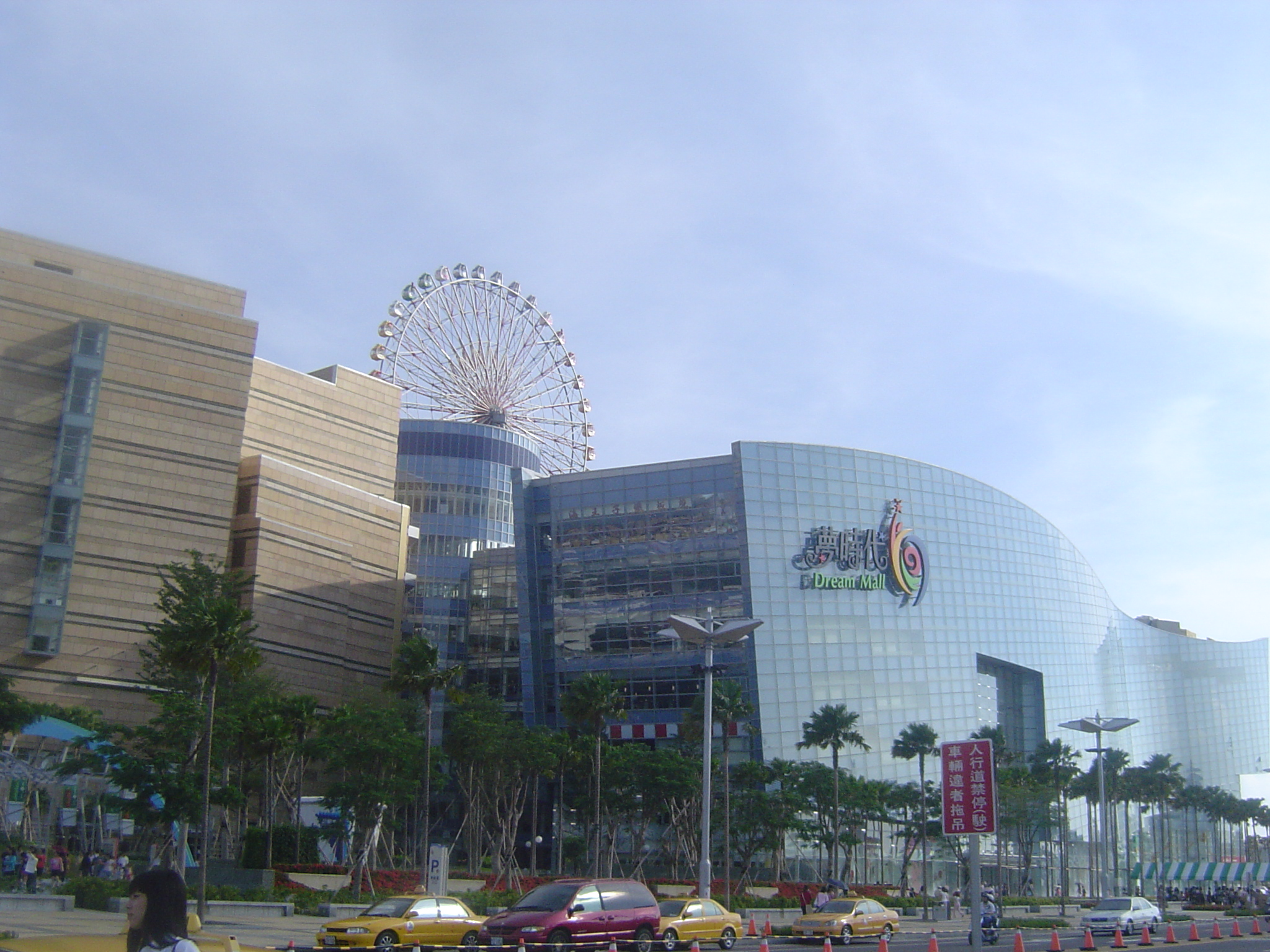 Dream Mall中文（台灣）: 統一夢時代購物中心